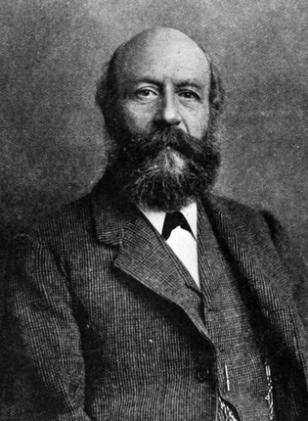 John Cadbury, founder of the Cadbury chocolate-making company. Photo taken prior to 1889. Source - [1]